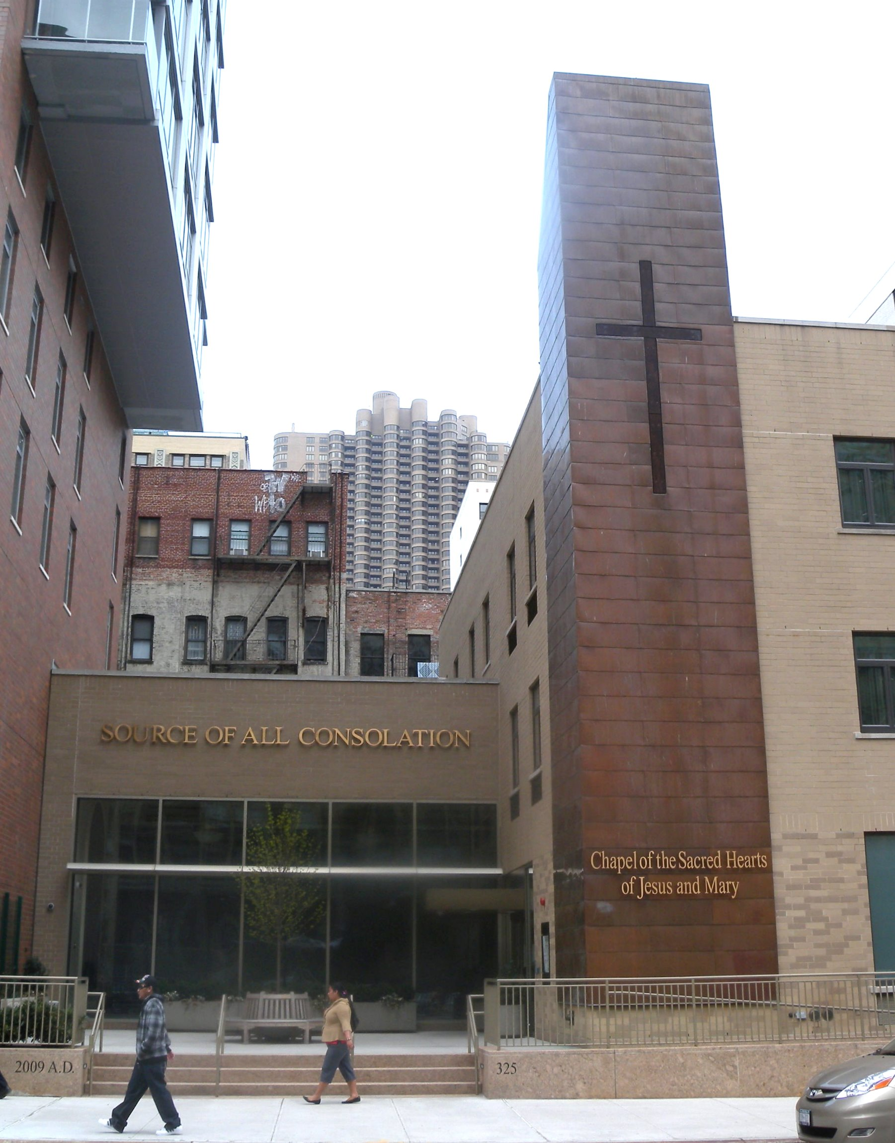 Looking north across 33d Street at Sacred Hearts chapel on a cloudy afternoon.